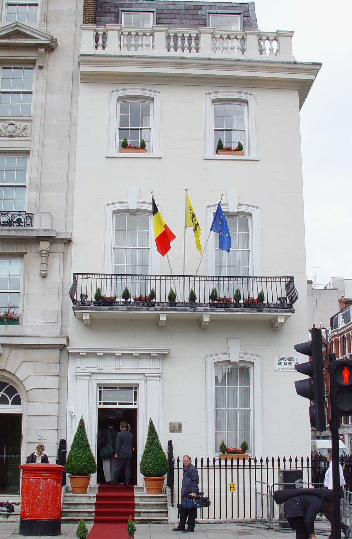 Flanders House, Cavendish Square, London, UK